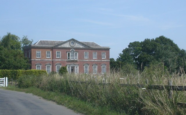 Shillinglee Park. No doubt once a Country House, now a golf club.